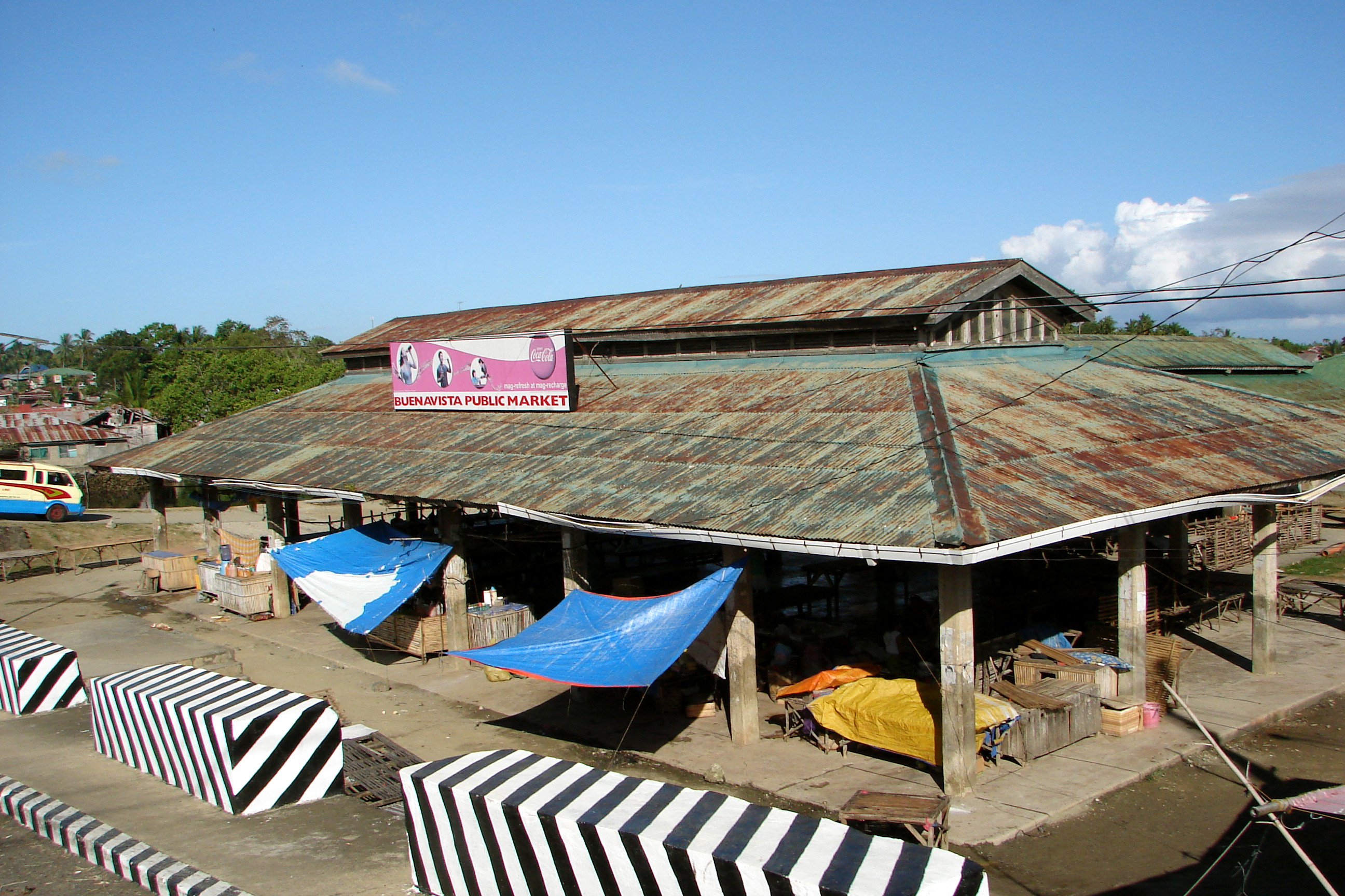 Public market in Buenavista, Bohol, Philippines